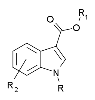 General structure of indole-3-carboxylates